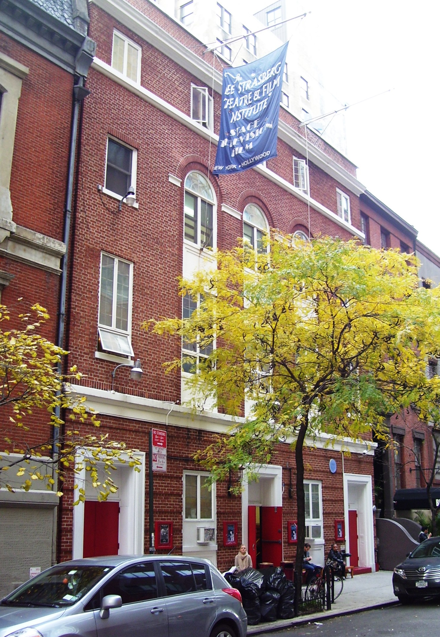 The Lee Strasberg Theatre and Film Institute at 115 East 15th Street between Union Square East and Irving Place in the Union Square neighborhood of Manhattan, New York City was founded by the noted acting teacher in 1969. The building dates from c.1930 (Sources: NYC GIS map and LSTFI website)